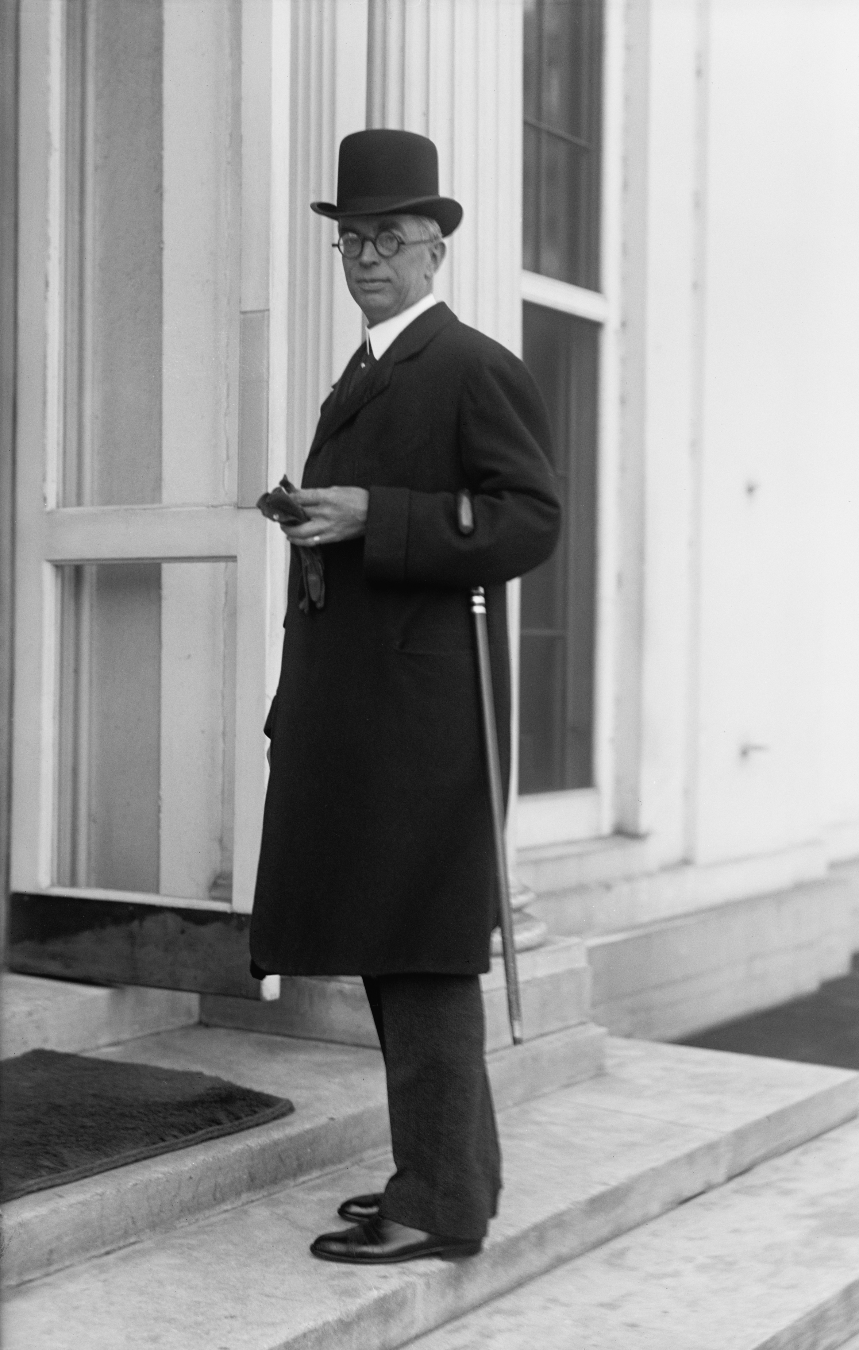 Harvey, George, Col. Editor, Harper's Weekly, etc.; Amb. E. & P. to Great Britain